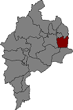 Location of Cava in Alt Urgell